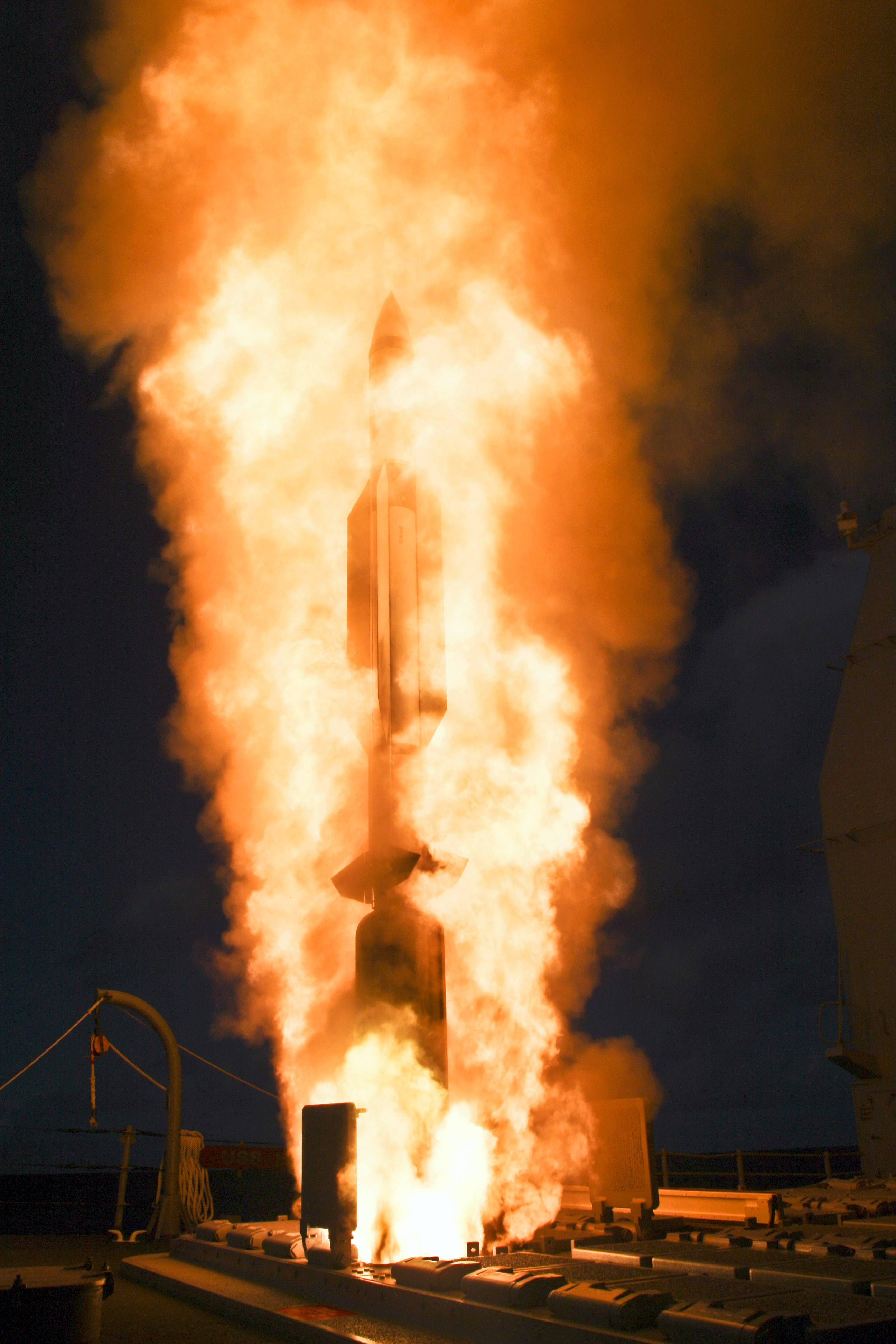 080605-N-0000X-006 PACIFIC OCEAN A modified Standard Missile 2 (SM-2) Block IV interceptor is launched Thursday, June 5, 2008 from the guided-missile cruiser USS Lake Erie (CG 70) during a Missile Defense Agency test to intercept a short-range ballistic missile target. The missile intercepted the target approximately 12 miles above the Pacific Ocean 100 miles west of Kauai, Hawaii on the Pacific Missile Range Facility. This was the second successful intercept in two attempts of the sea-based terminal capability and the fourteenth overall successful test of the Aegis Ballistic Missile Defense Program. (Released)